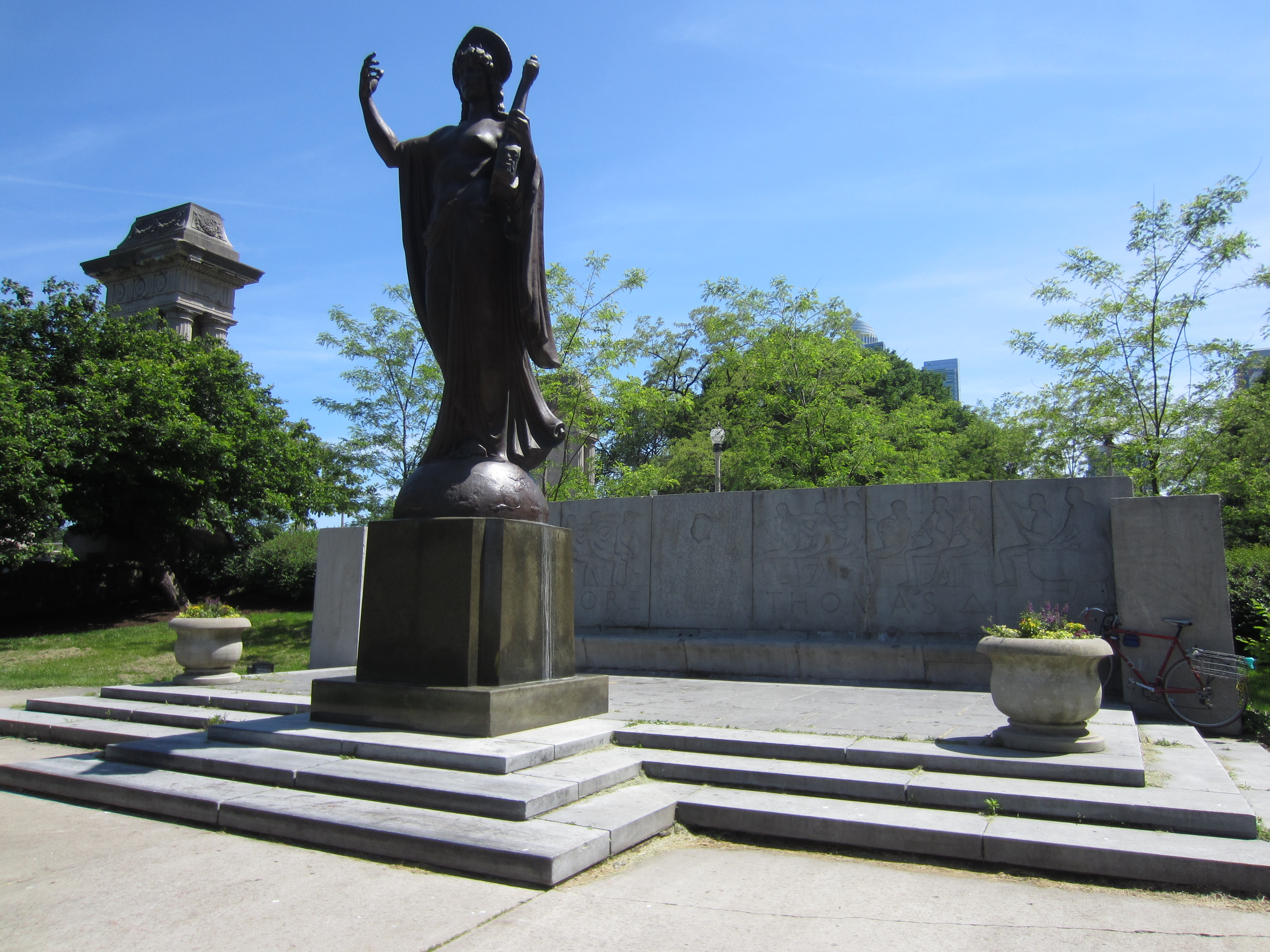 Chicago, Illinois, June 2015